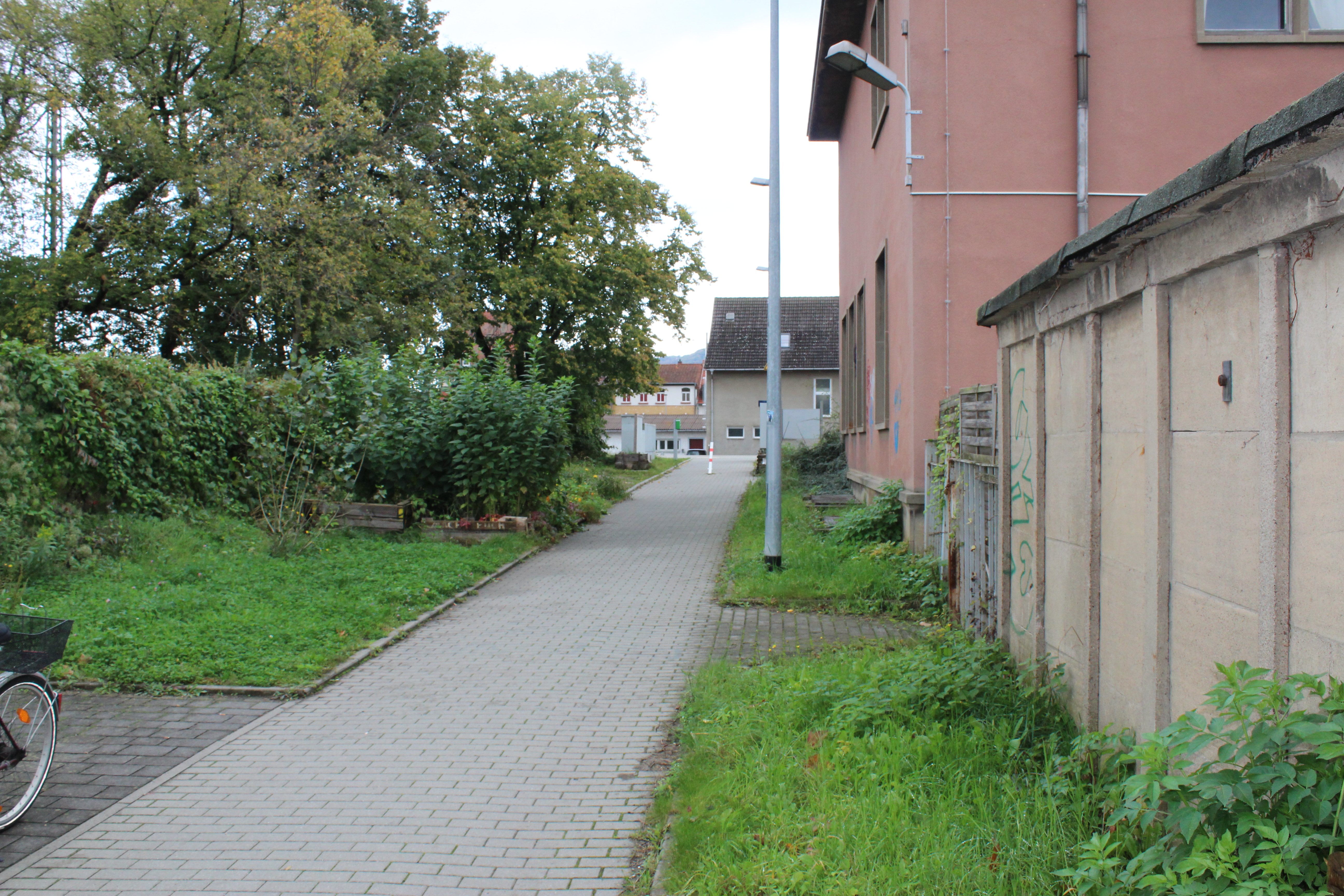 train station Jena Saalbahnhof, entrance